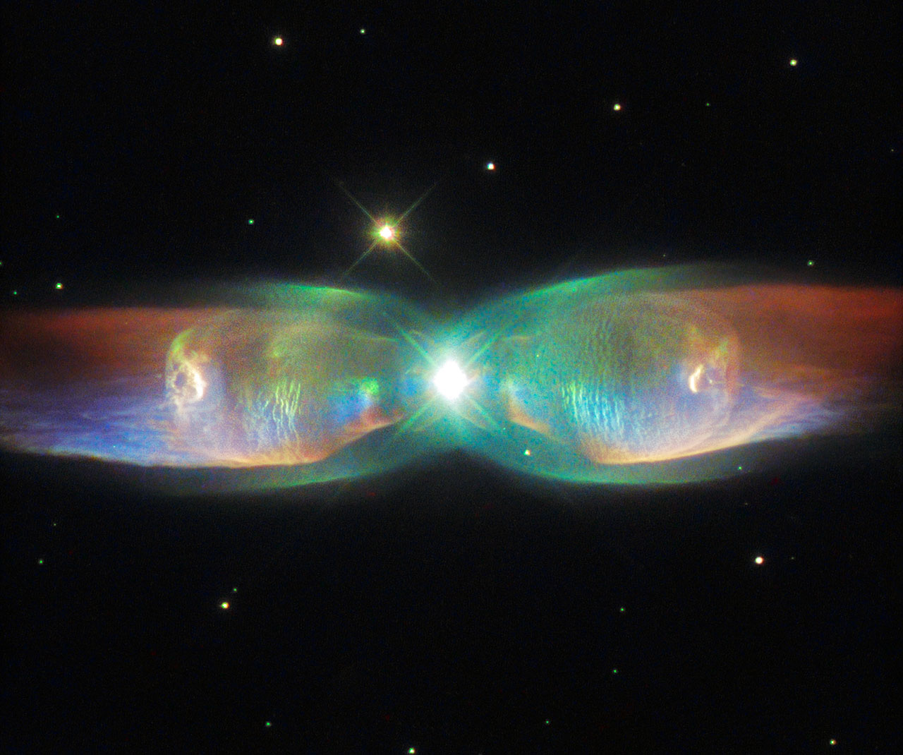 The Twin Jet Nebula, or PN M2-9, is a striking example of a bipolar planetary nebula. Bipolar planetary nebulae are formed when the central object is not a single star, but a binary system, Studies have shown that the nebula’s size increases with time, and measurements of this rate of increase suggest that the stellar outburst that formed the lobes occurred just 1200 years ago.